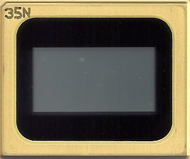 4K DLP CINEMA. A Texas Instruments Technology.